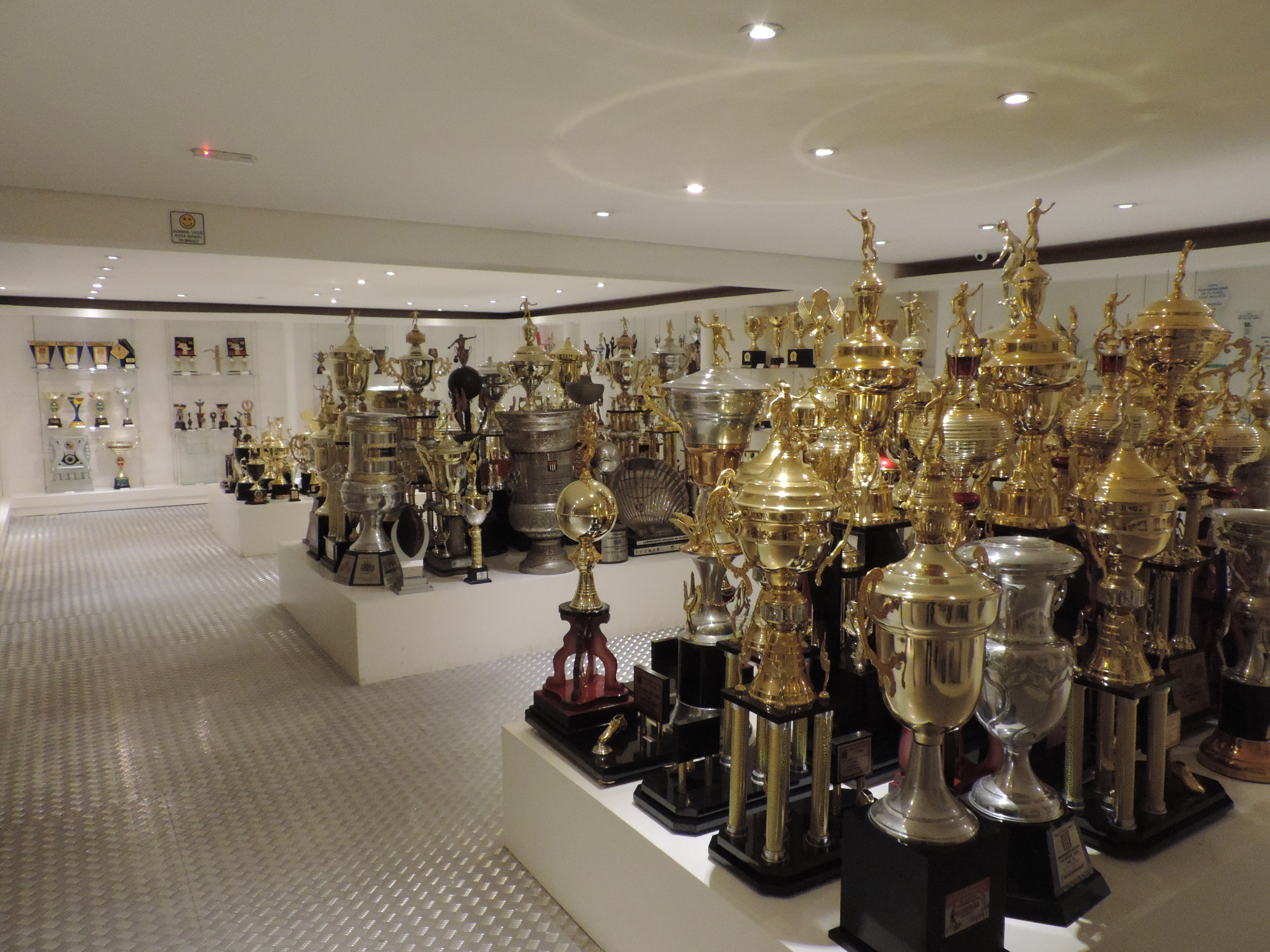 Sala de troféus do time